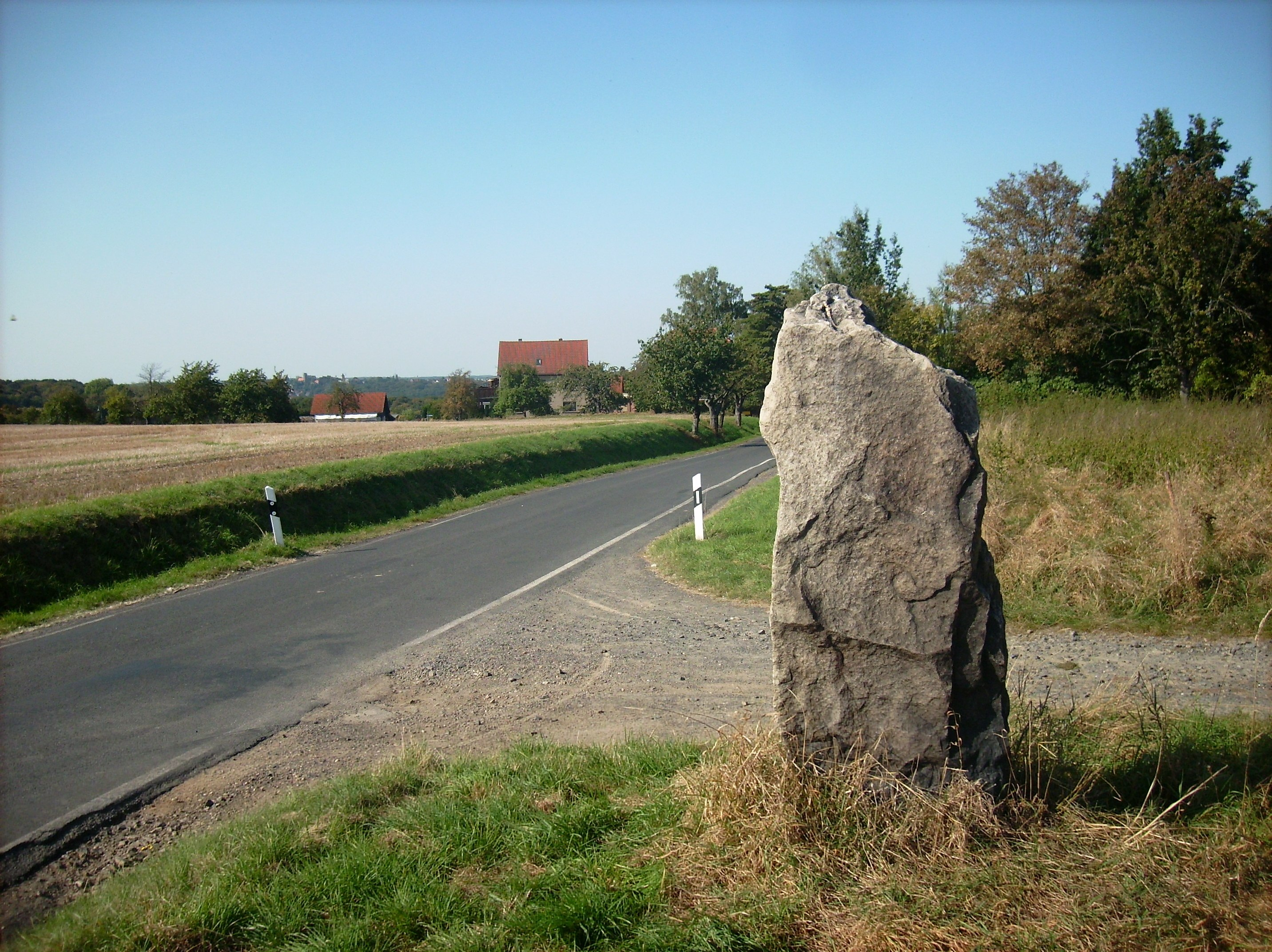 High Stone, a menhir near Döben (Grimma, Leipzig district, Saxony)